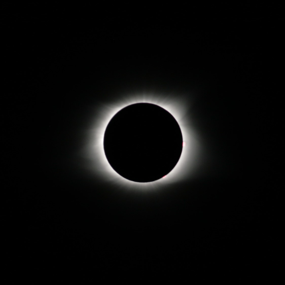 Solar corona showing during the total eclipse of the sun. Sweetwater, Tennessee, USA